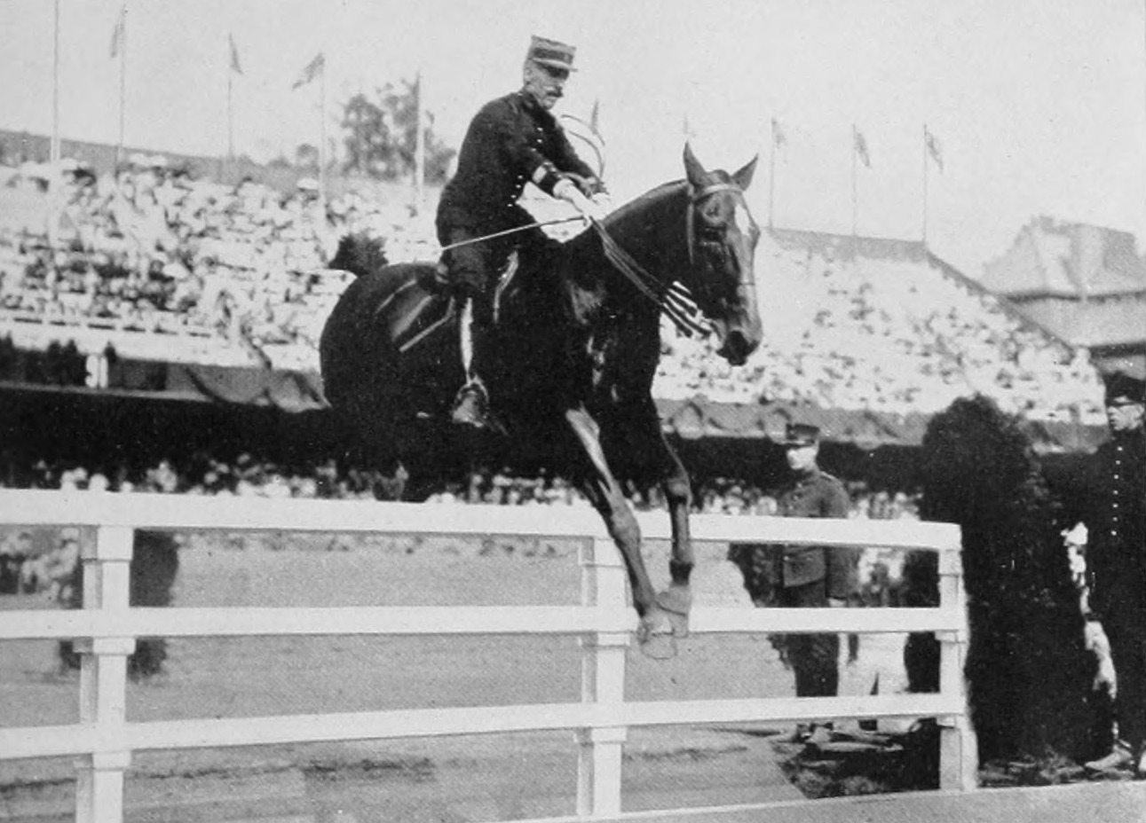 Jean Cariou at the 1912 Summer Olympics